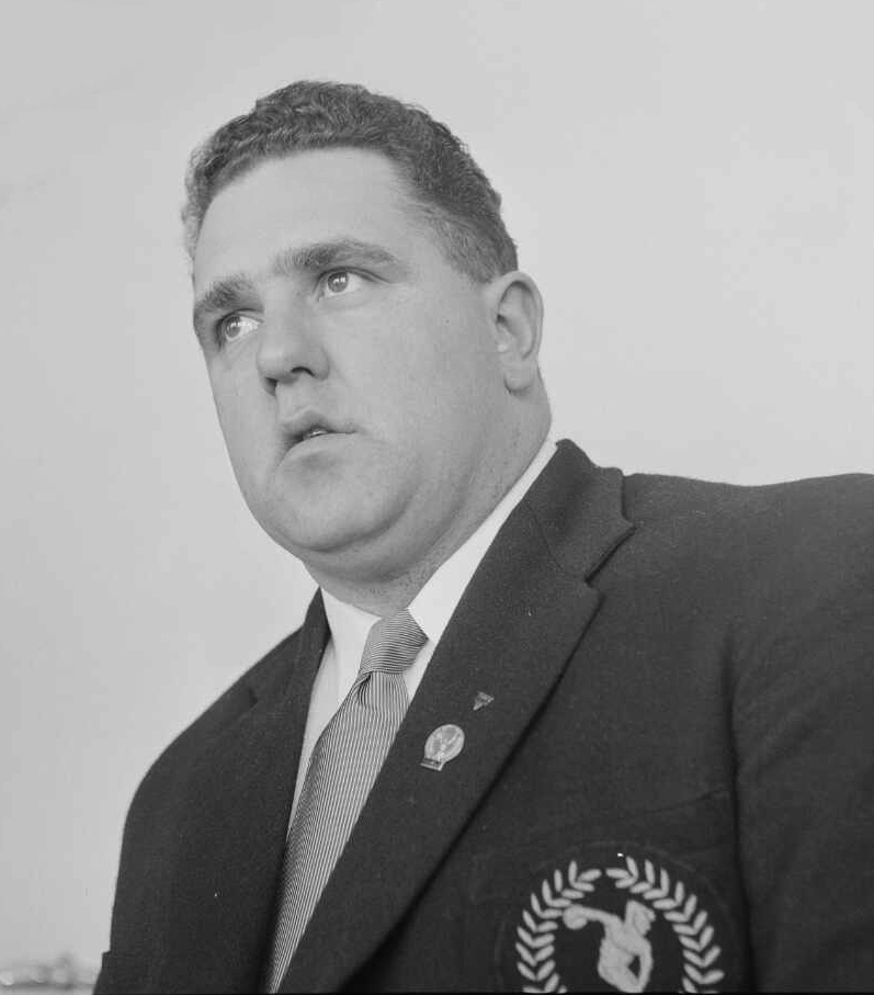 Mr H Jones wearing Olympic blazer, weight lifter